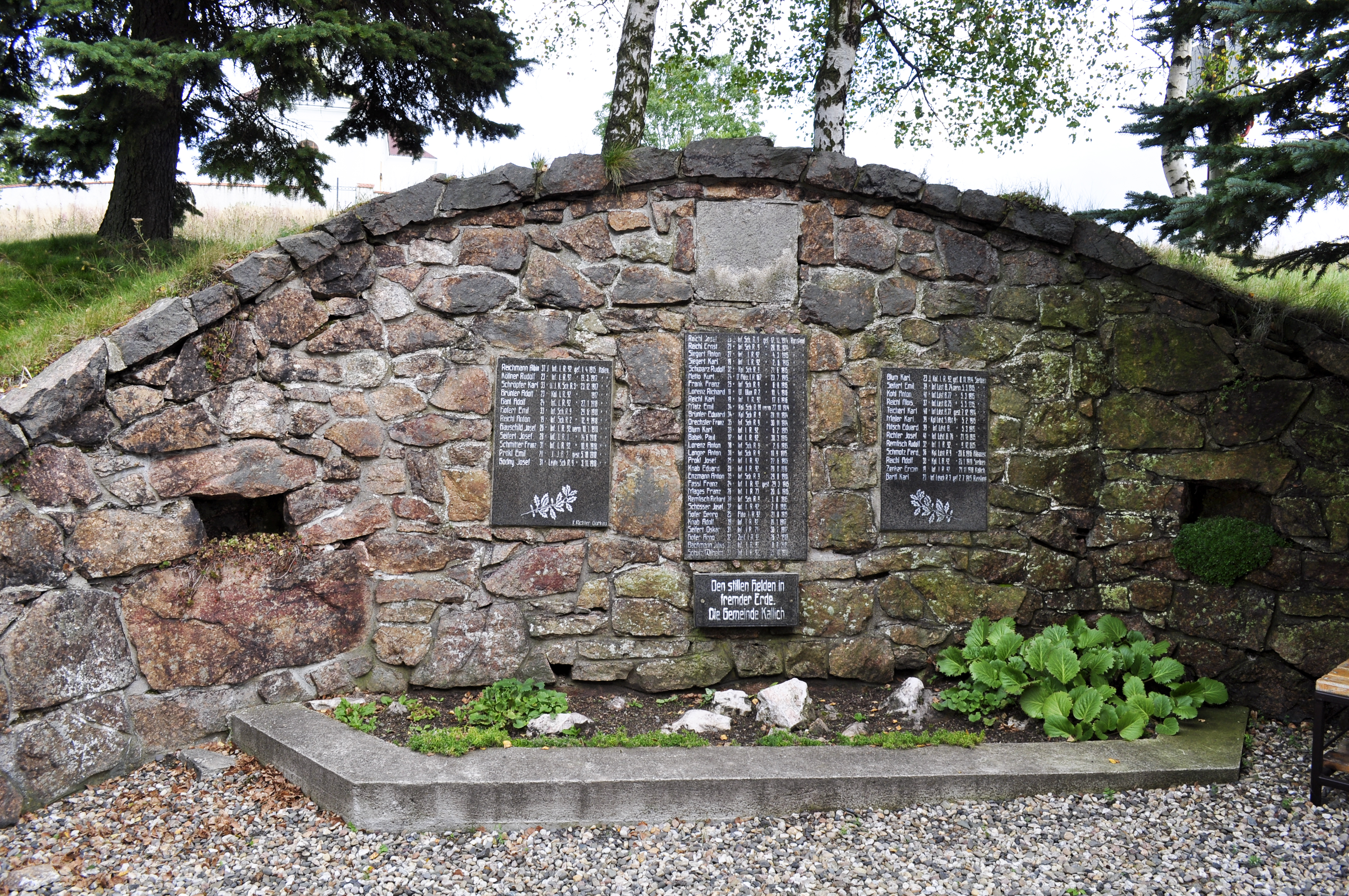 Memorial of WW I